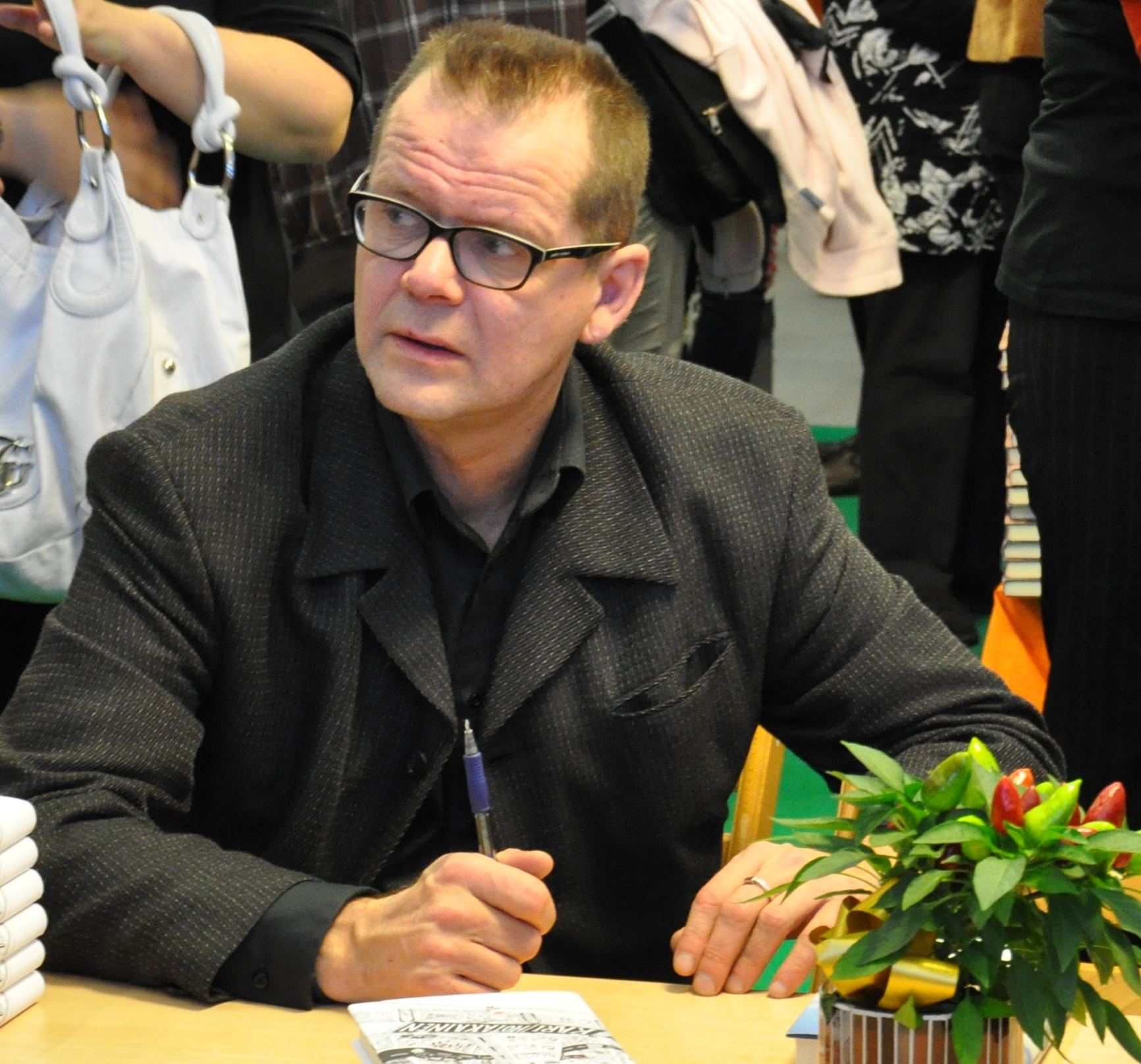 Finnish writer Kari Hotakainen at the Turku Book Fair 2009.